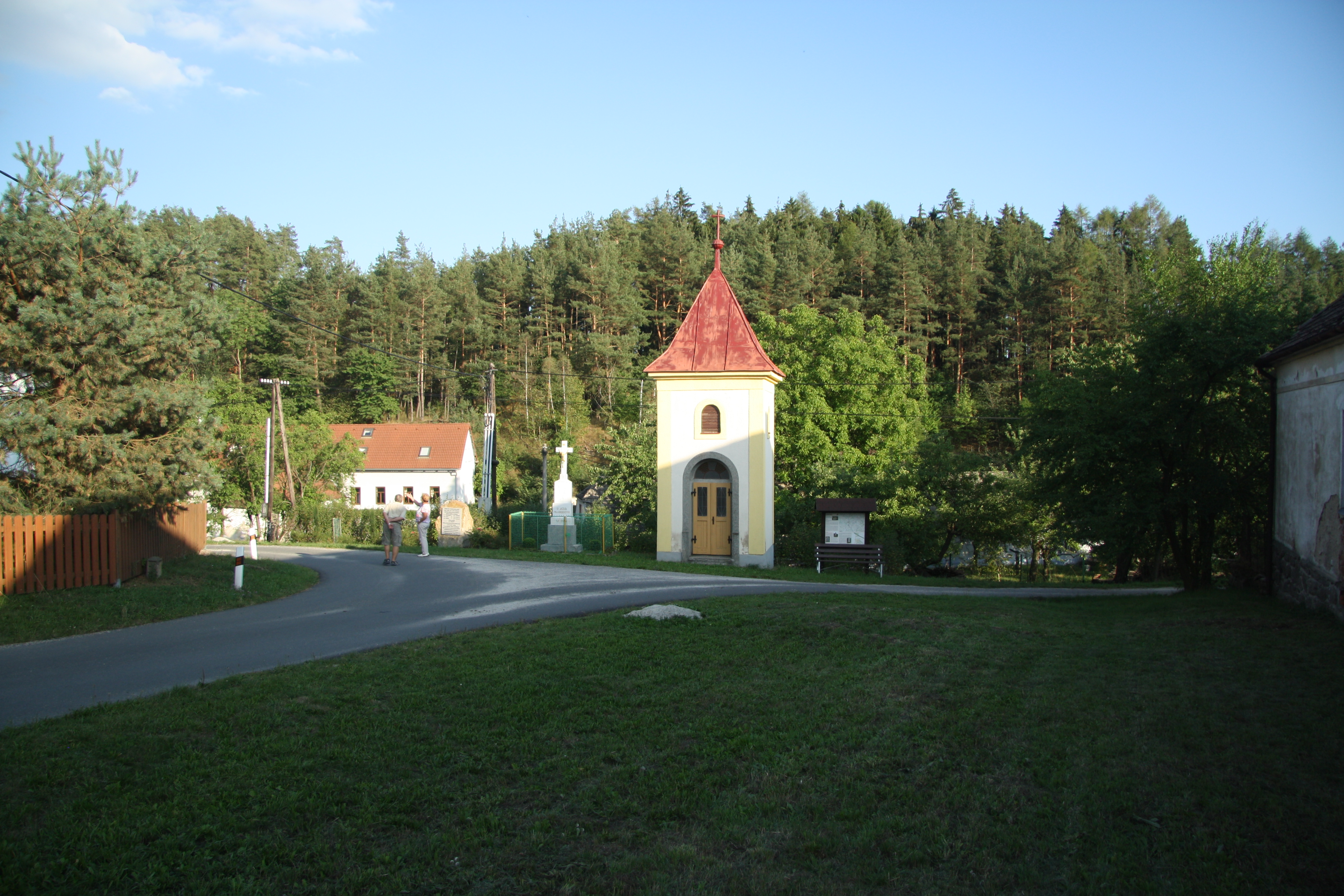 Center of Lhotka, Ruda, Žďár nad Sázavou District.